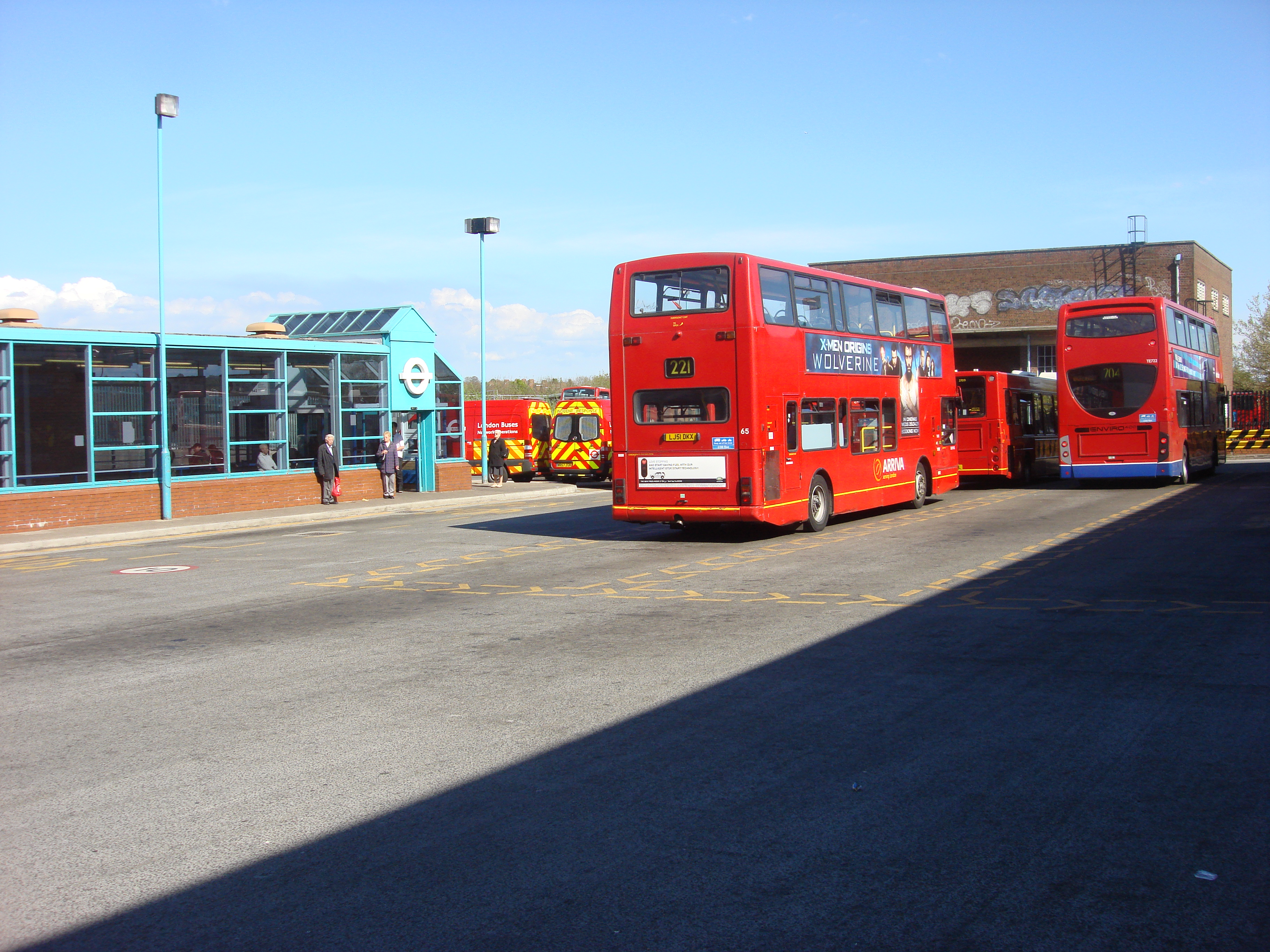 Edgware bus station. Closest is Arriva DLP65 (LJ51 DKX) working route 221.